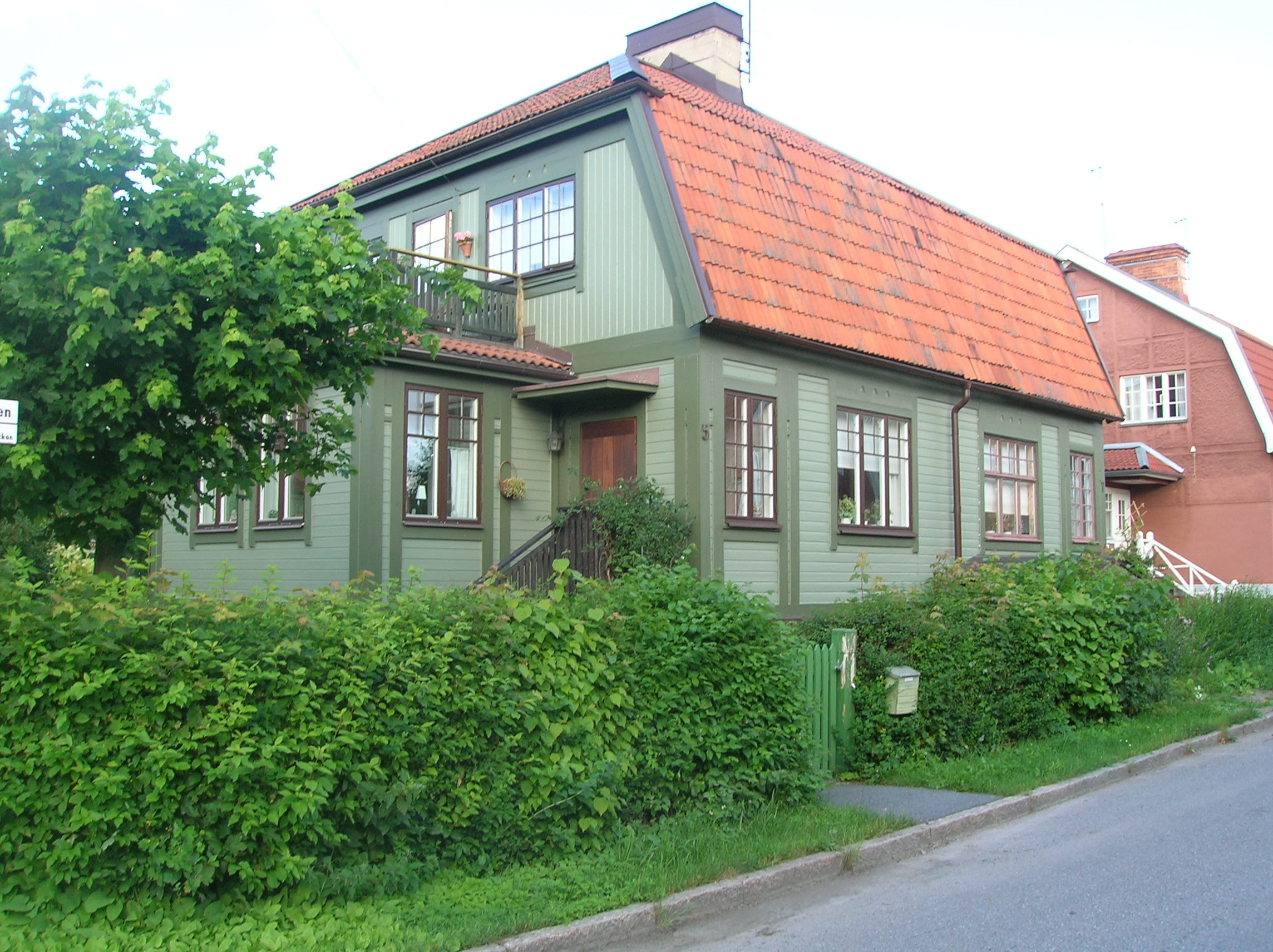 Ängsvägen 5-7, Gamla Enskede, Stockholm